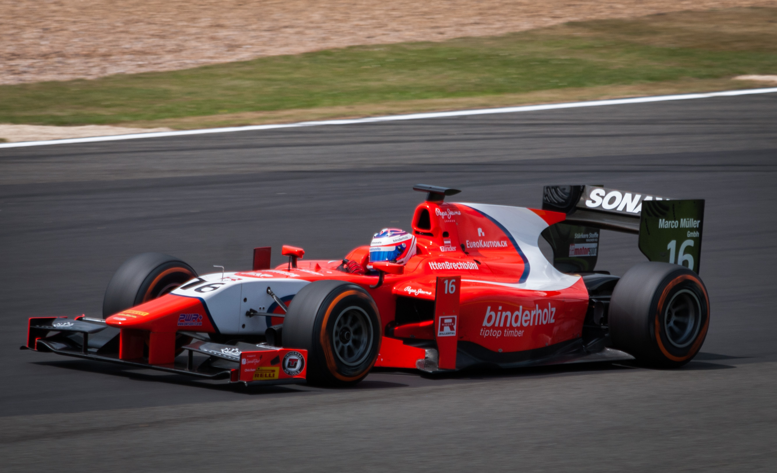 René Binder driving for Arden International at Silverstone. Round 5 of the 2014 GP2 Series Championship.